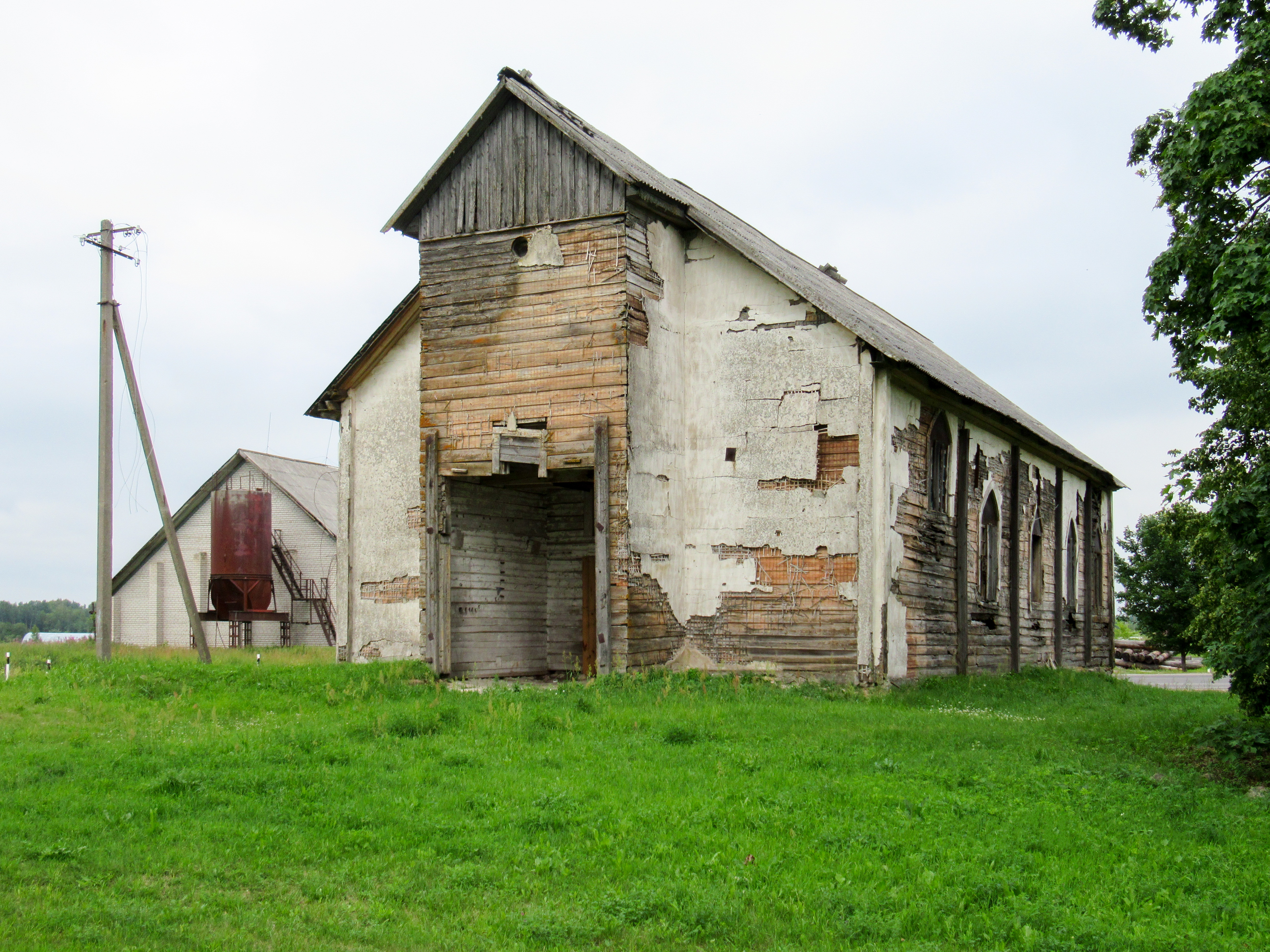 Tudulinna old church